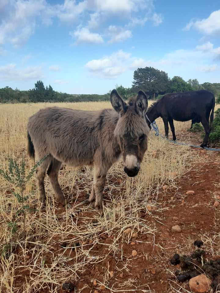 Hiking with donkey in Wasita - Bayda